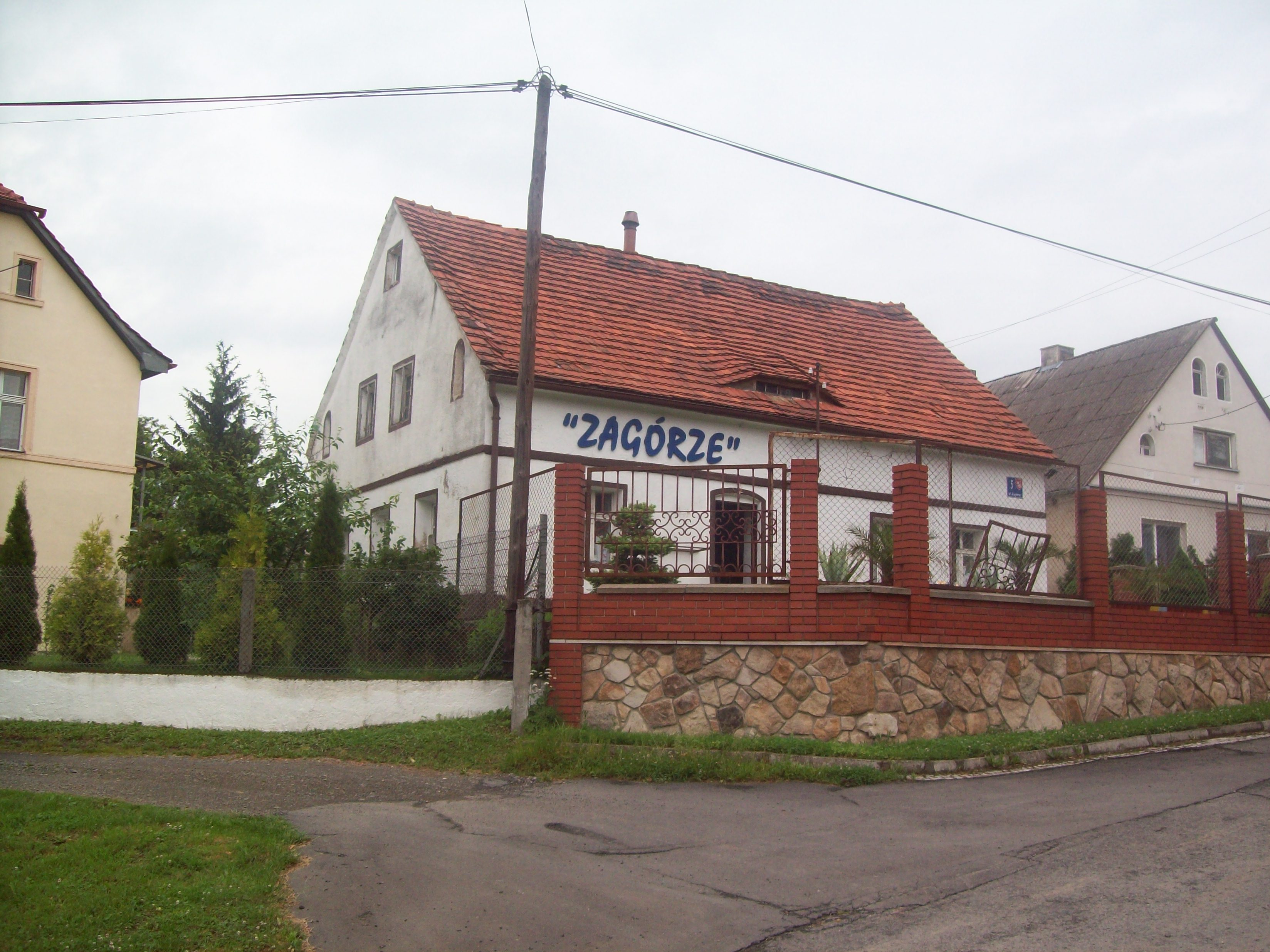 Zabudowa kłodzkiego Zagórza